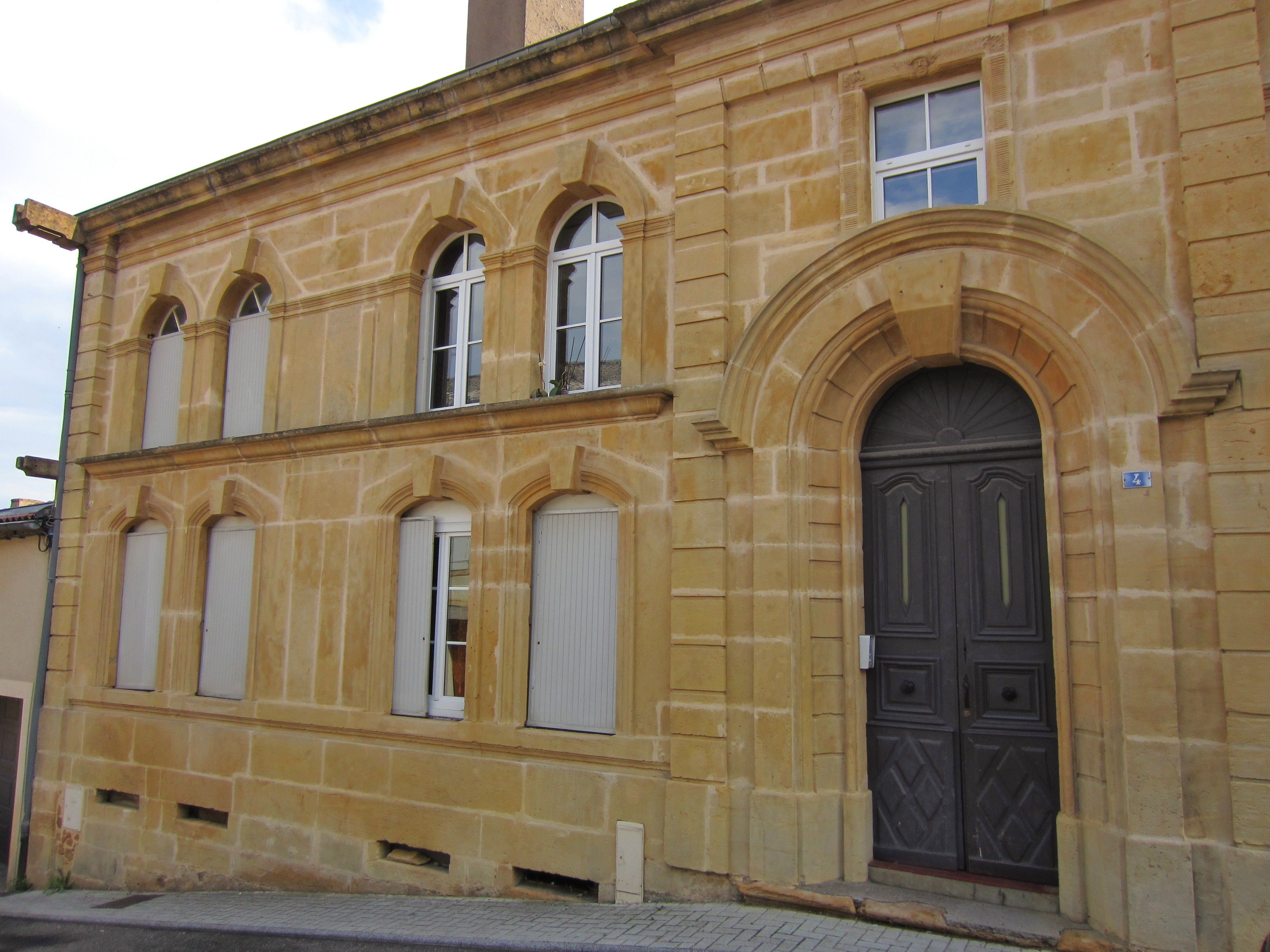 Description ancien tribunal Marange Date3 September 2011Sourcemon appareil photoAuthorAimelaimePermission (Reusing this file) ancien tribunal Marange